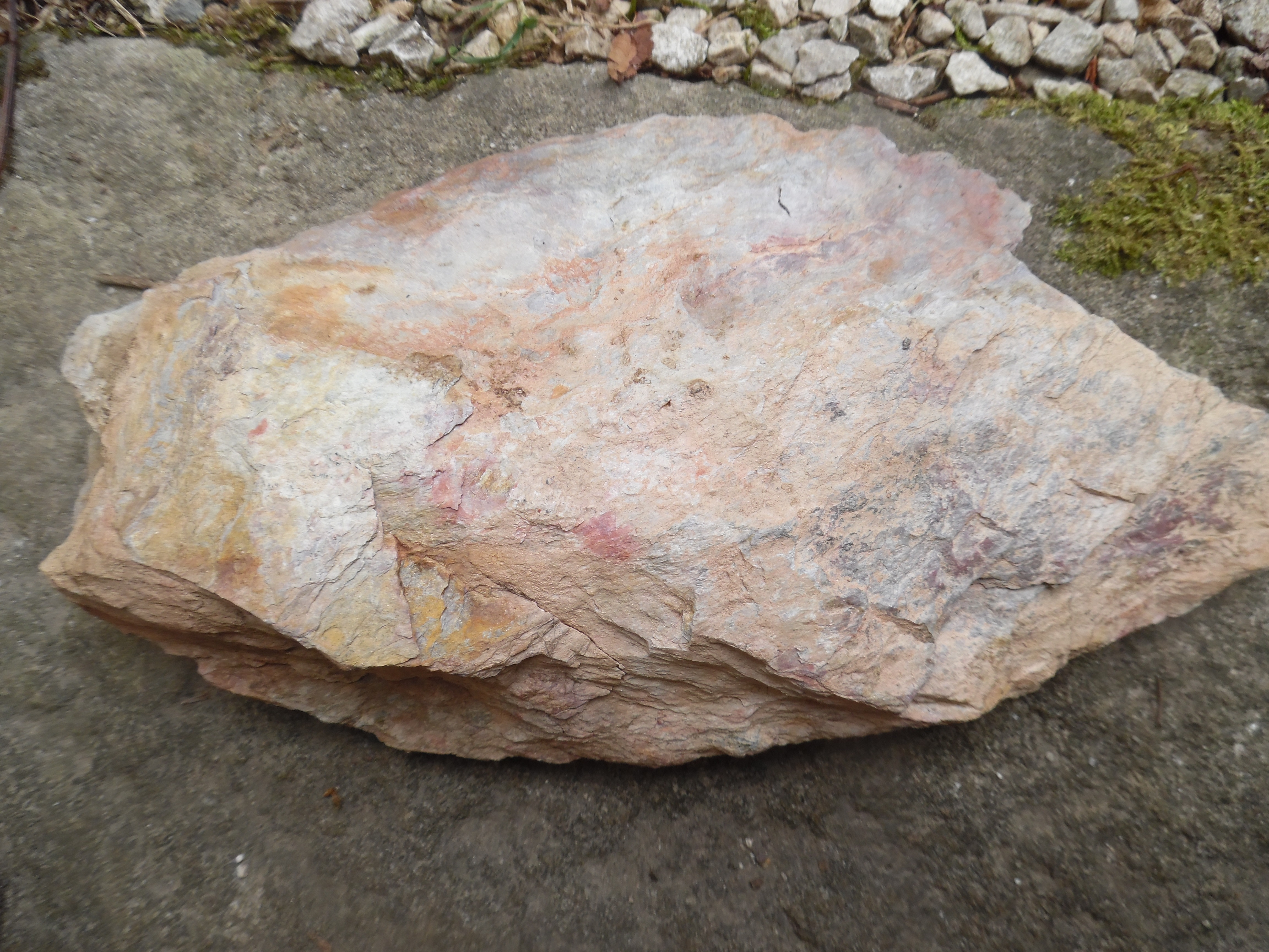 Purple sericite schist belonging to the Génis Sericite Schist and coming from the Cubas Syncline, just north of Cherveix-Cubas, Dordogne, France.